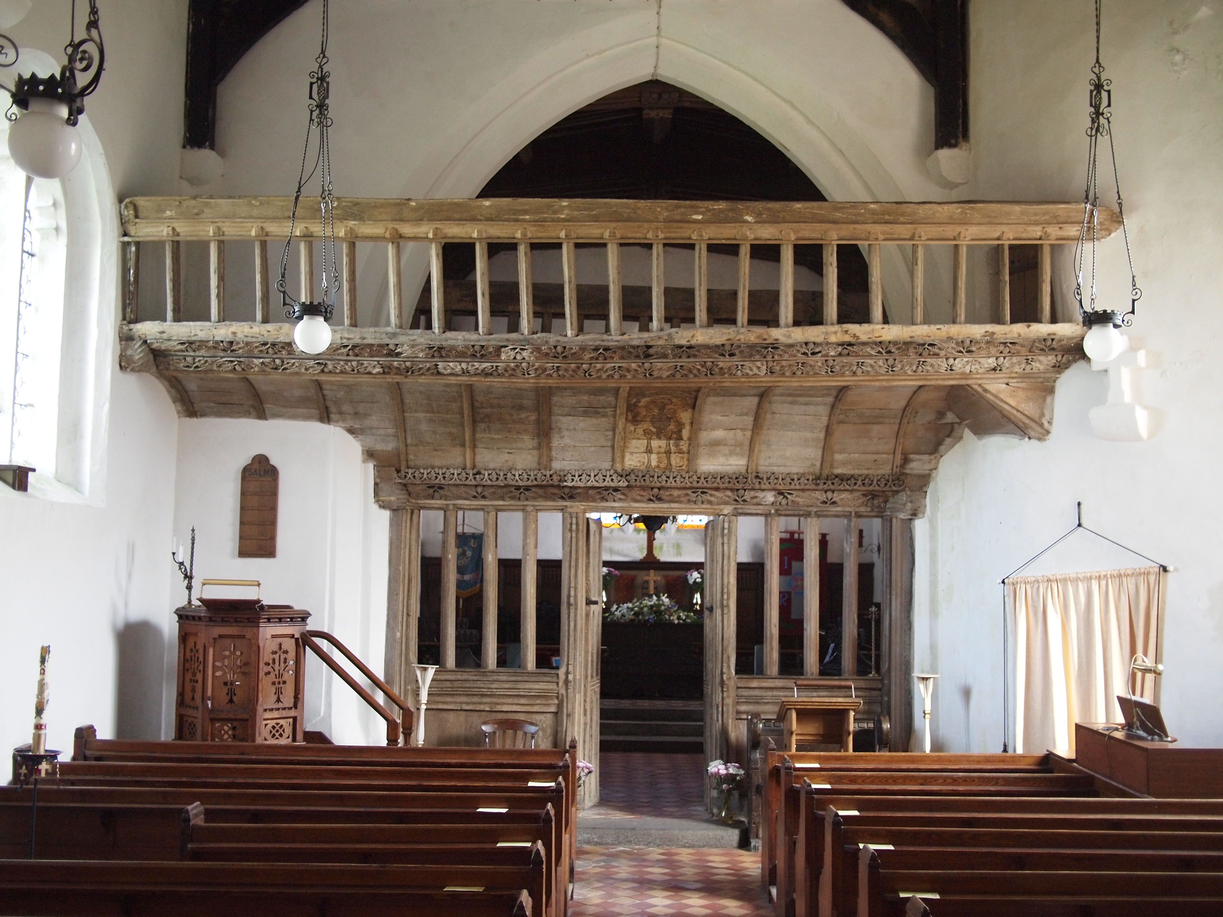 Fifteenth-century rood screen and loft in St Eilian's Church, Llaneilian, Anglesey, Wales